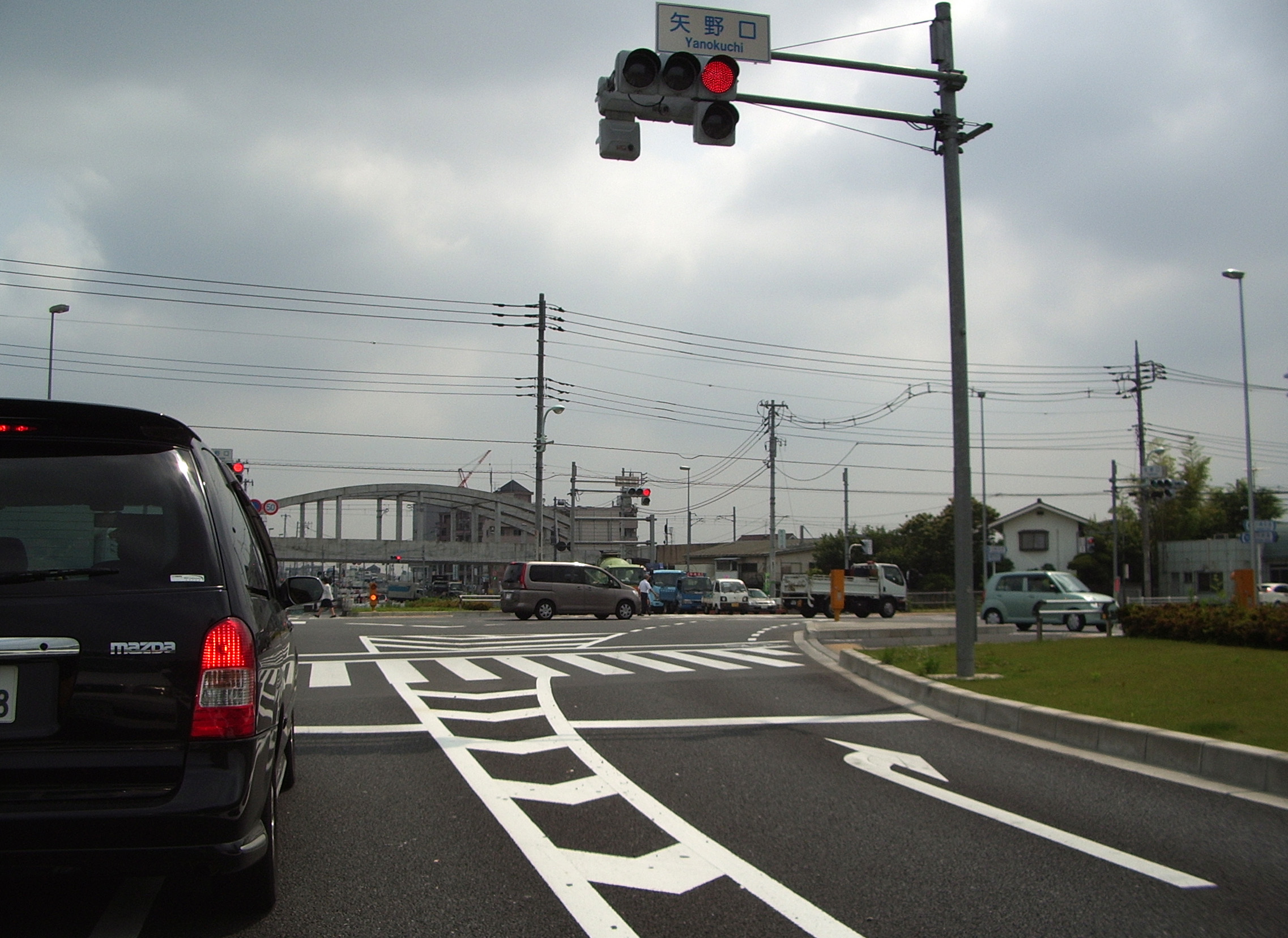 Yanokuchi crossing, Inagi, Tokyo